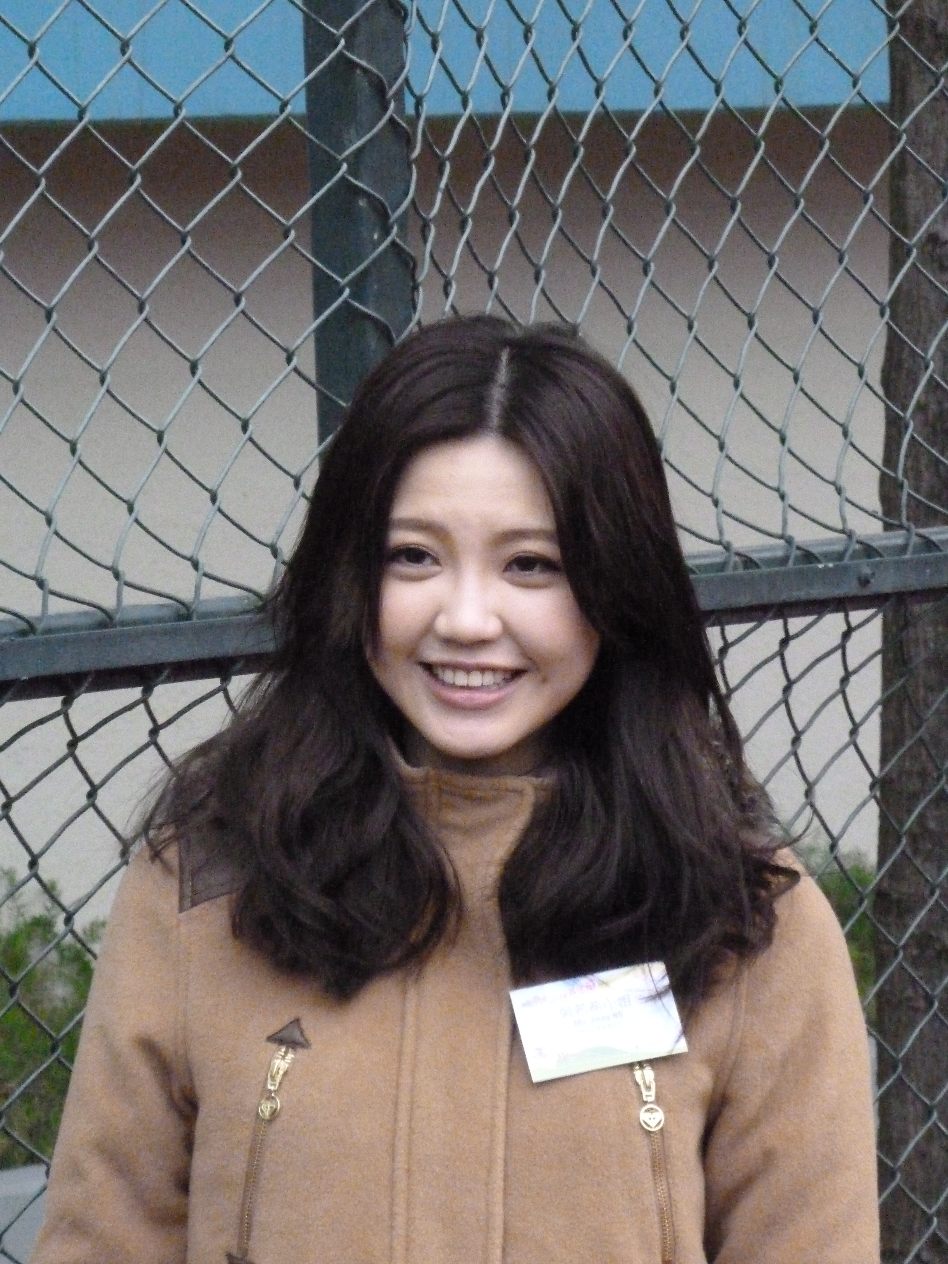 Jinny Ng (15 Feb 2014, Dog Adoption Carnival, Lai Chi Kok Park Phase 1 Soccer Pitch)中文（香港）: 吳若希 (15 Feb 2014, 狗狗領養嘉年華, 荔枝角公園一期足球場)